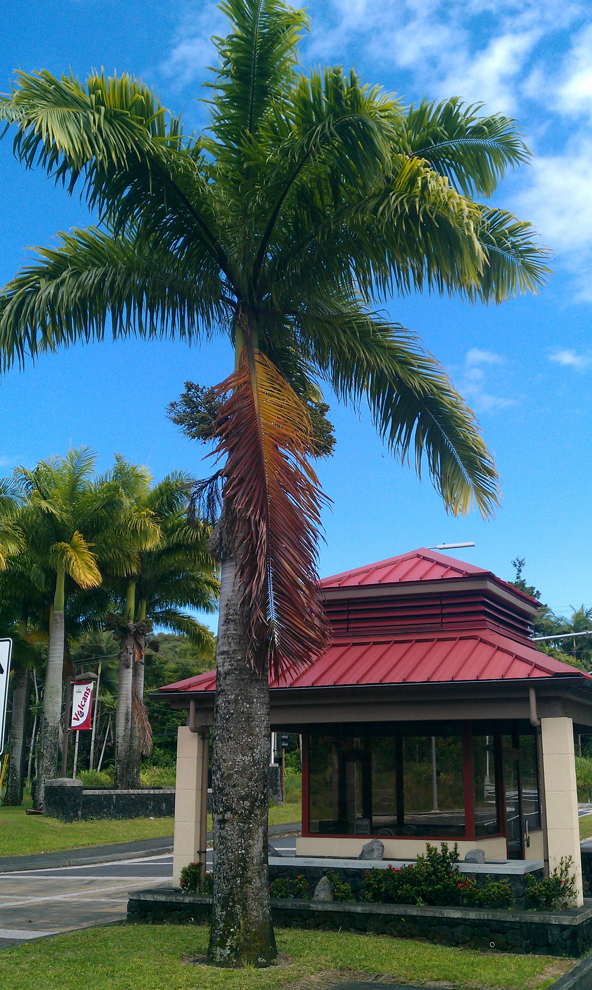 Exiting main entrance to the campus